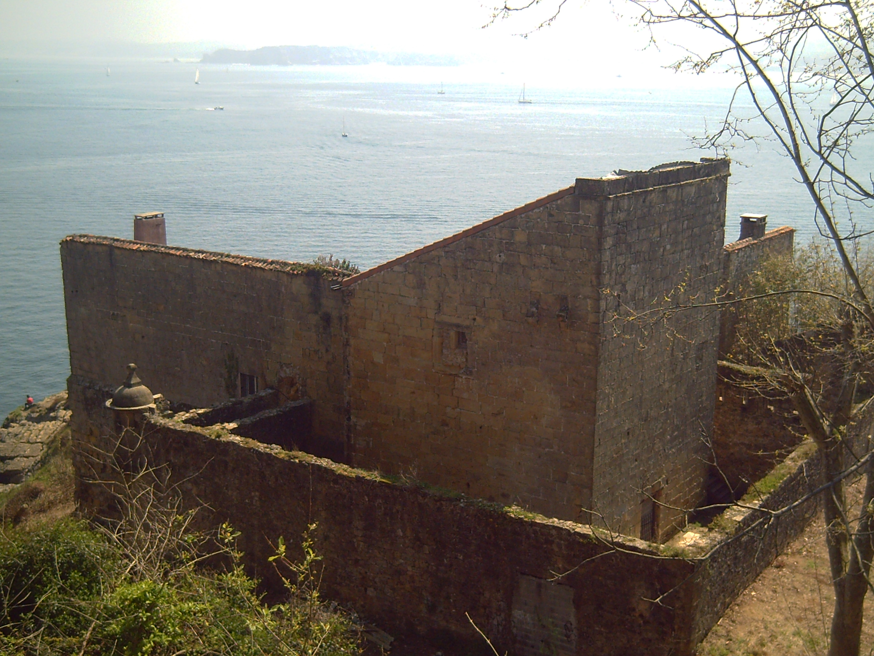 San Telmo Castle, XVI century, Hondarribia